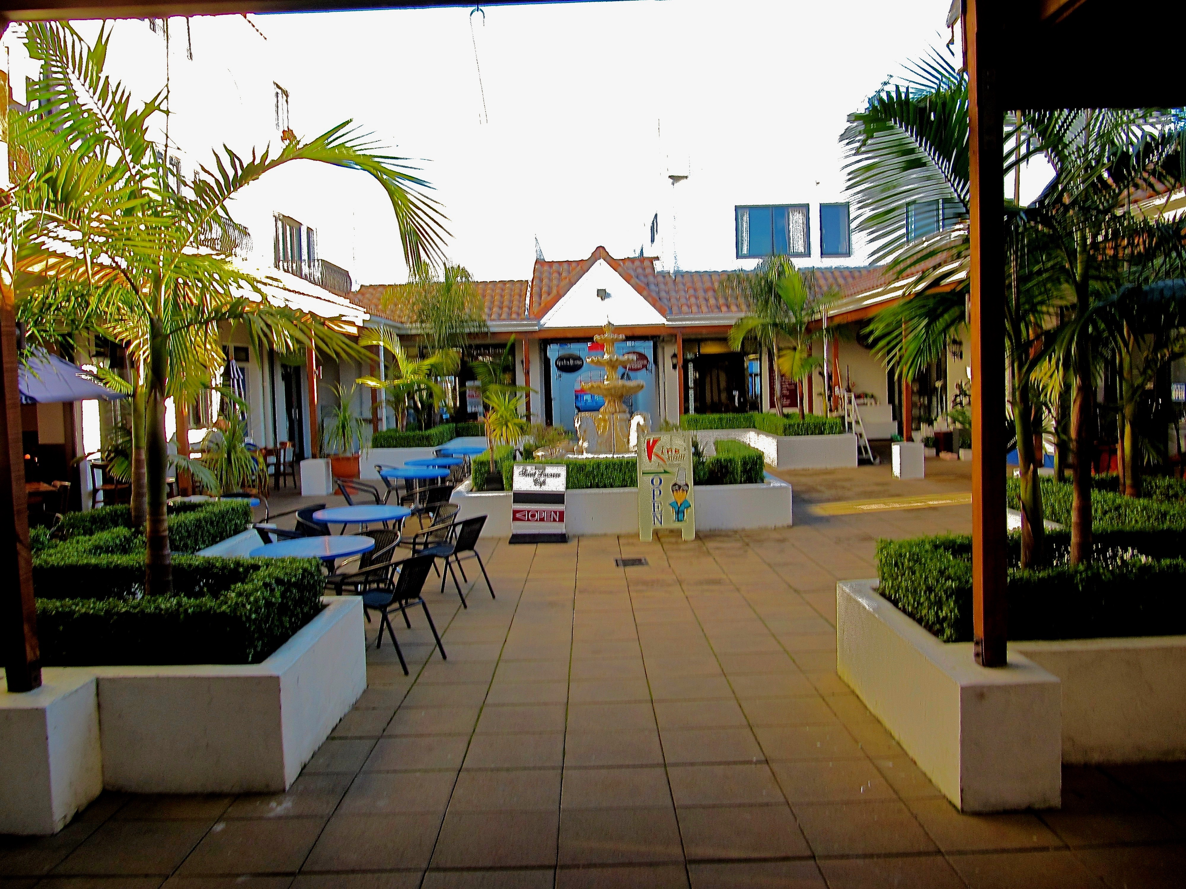 Cassabella La